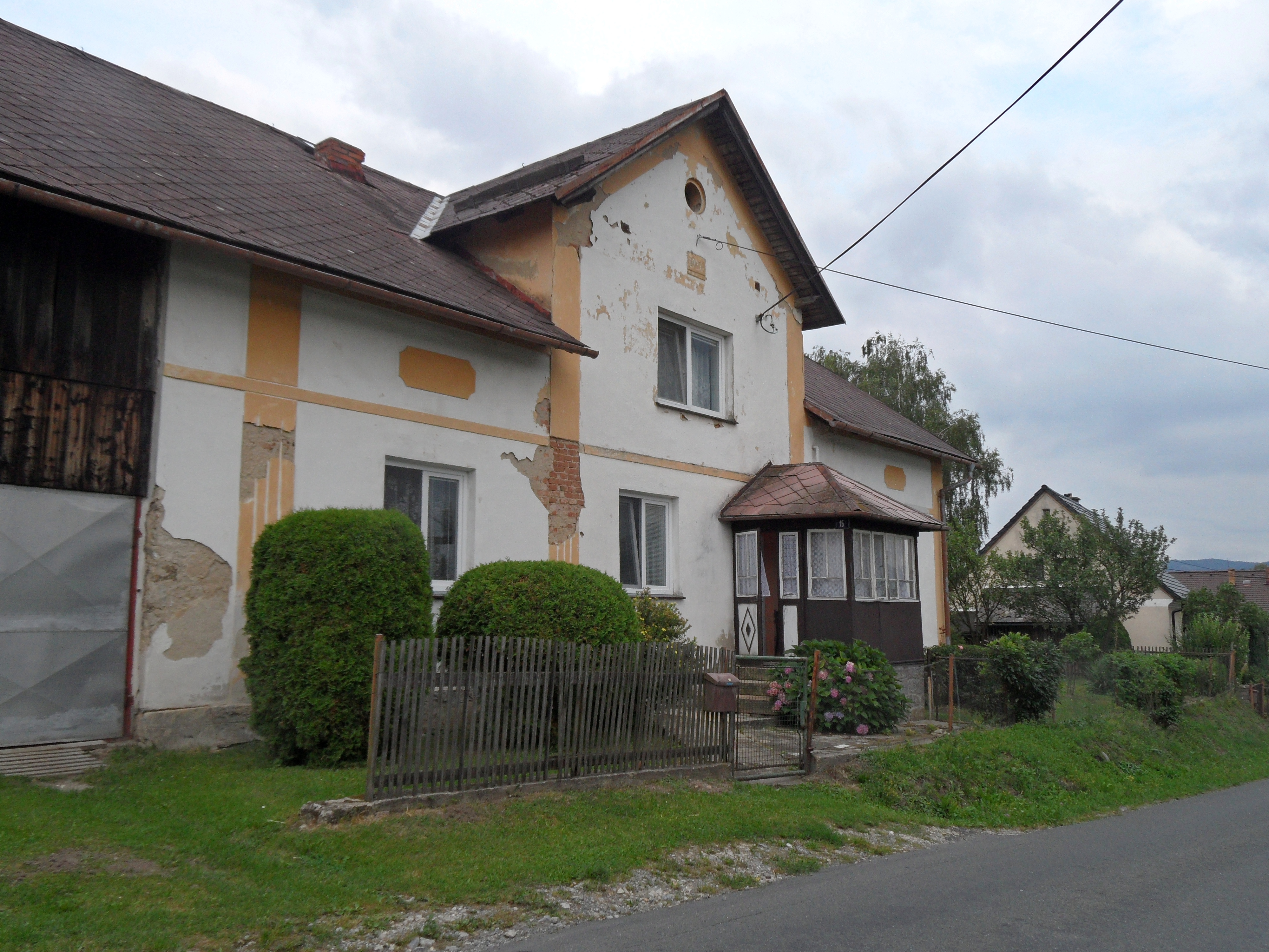 Dolní Červená Voda: House. Jeseník District, the Czech Republic.